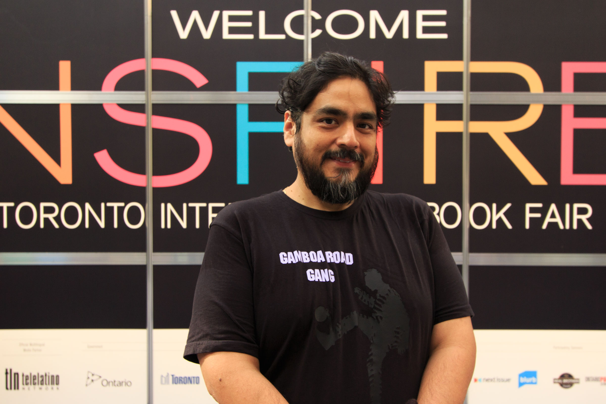 Writer JL Rodriguez Pitti at the Inspire! Toronto International Book Fair in Ontario, Canada.